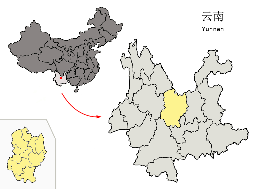 Location of Chuxiong Prefecture (yellow) within Yunnan province of China Map drawn in september 2007 using various sources, mainly : Yunnan province administrative regions GIS data: 1:1M, County level, 1990 Yunnan Counties map from